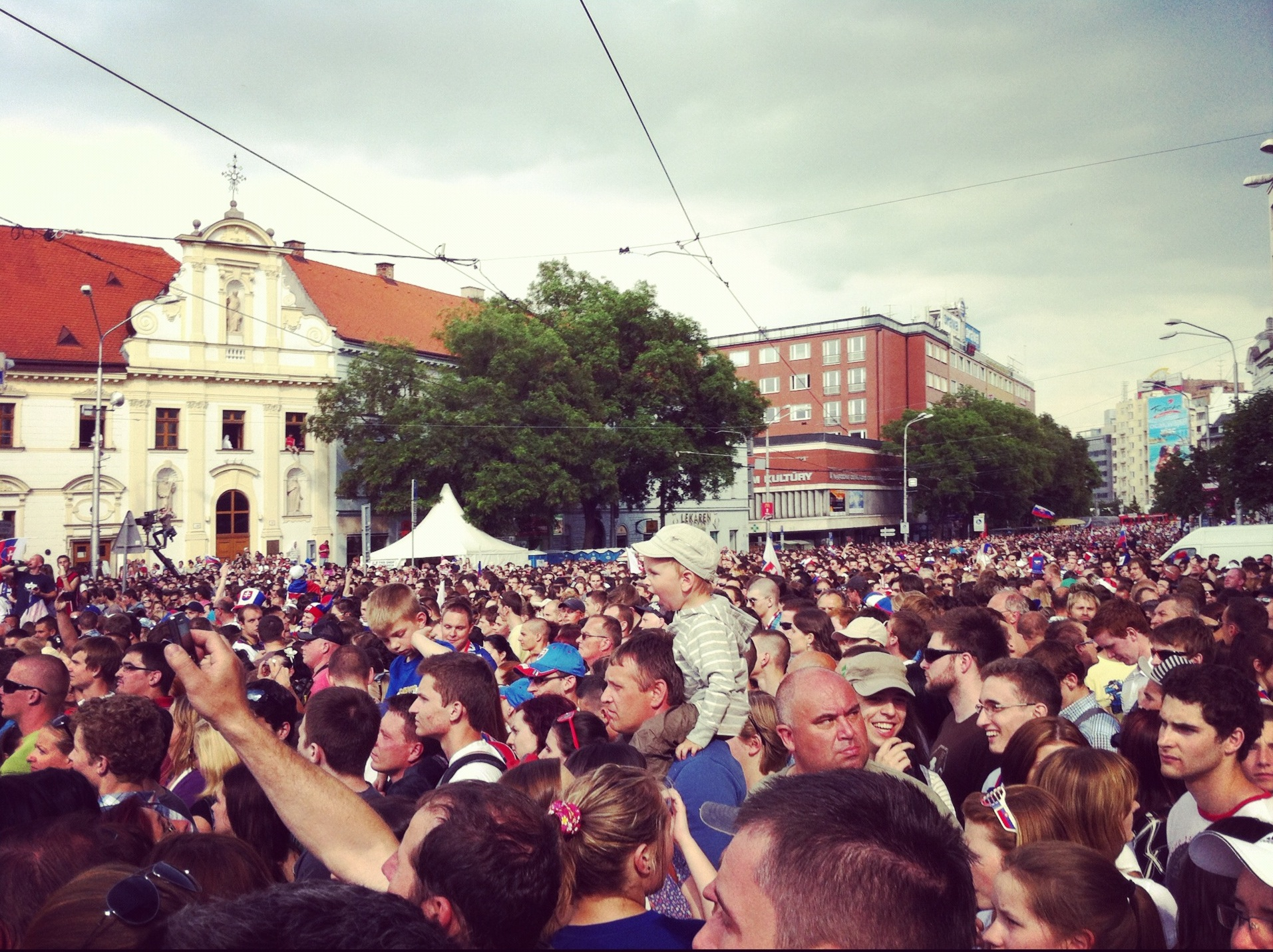 This picture shows the crowd that welcomed Slovak ice hockey players after returning from 2012 World Championship and finishing 2nd